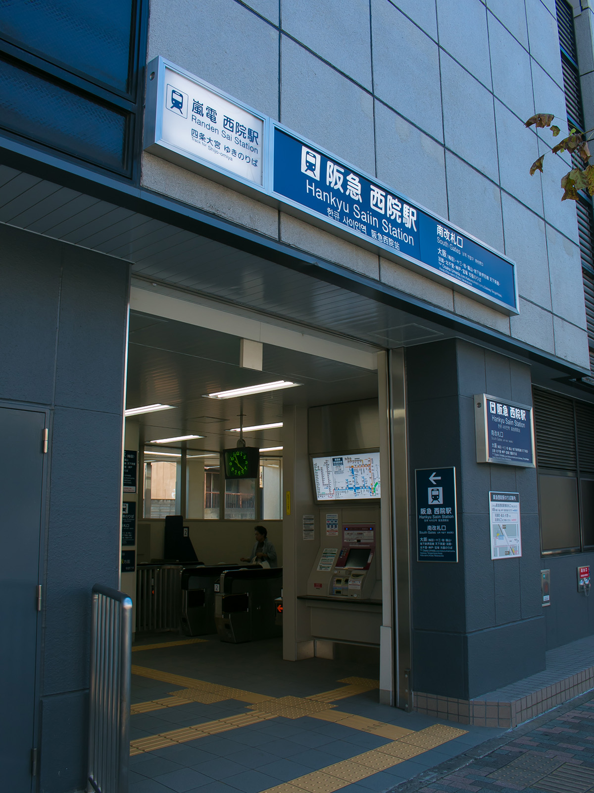 South Gates from Sai Station.